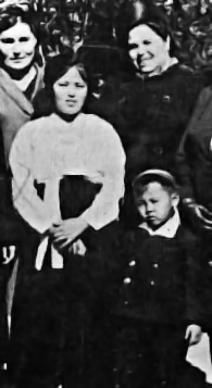 Kim Jong-suk and her son Kim Jong-il (1949.11)